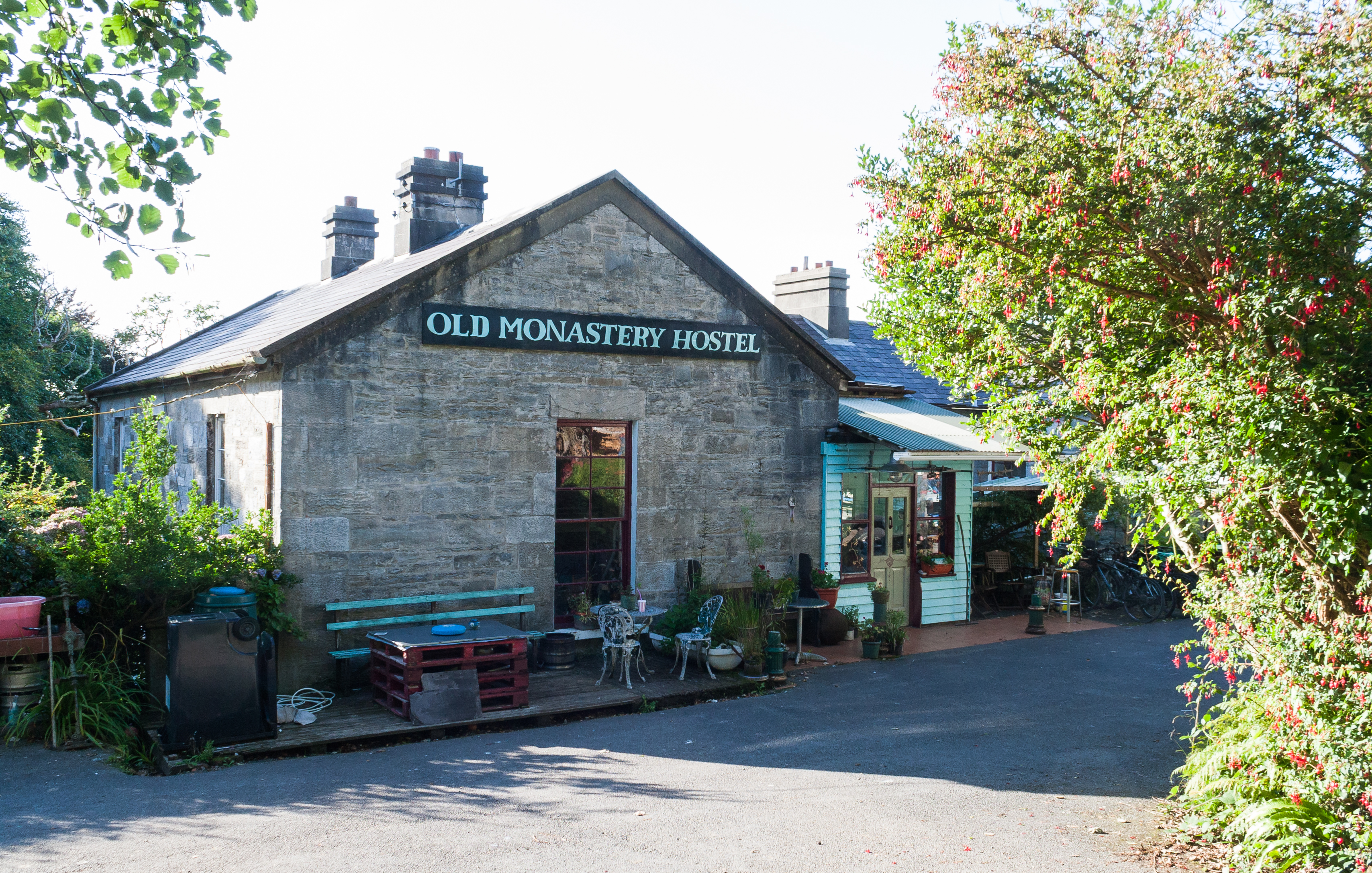 Old Monastery Hostel, was built by the Quakers James and Mary Ellis in 1849 to provide relief to the famine-stricken population in the area. The building was sold in 1857 and eventually purchased by the Archbishop of Tuam for the Christian Brothers who used it as a monastery close to the Industrial School for boys opened in 1886. The school and the monastery were dissolved in 1974. Later the buildings were sold to Connemara West, a local development group, who converted this into a hostel, named “Old Monastery Hostel”. (See Breandan O Scanaill, Historical Sketchbook: Listed Buildings of Connemara, Volume I, pp. 68–70.)